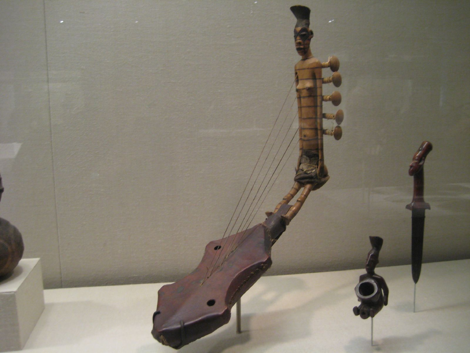 Figurative Harp - Democratic Republic of the Congo, Mangbetu people, 19th - 20th century - Metropolitan Museum of Art (New York)